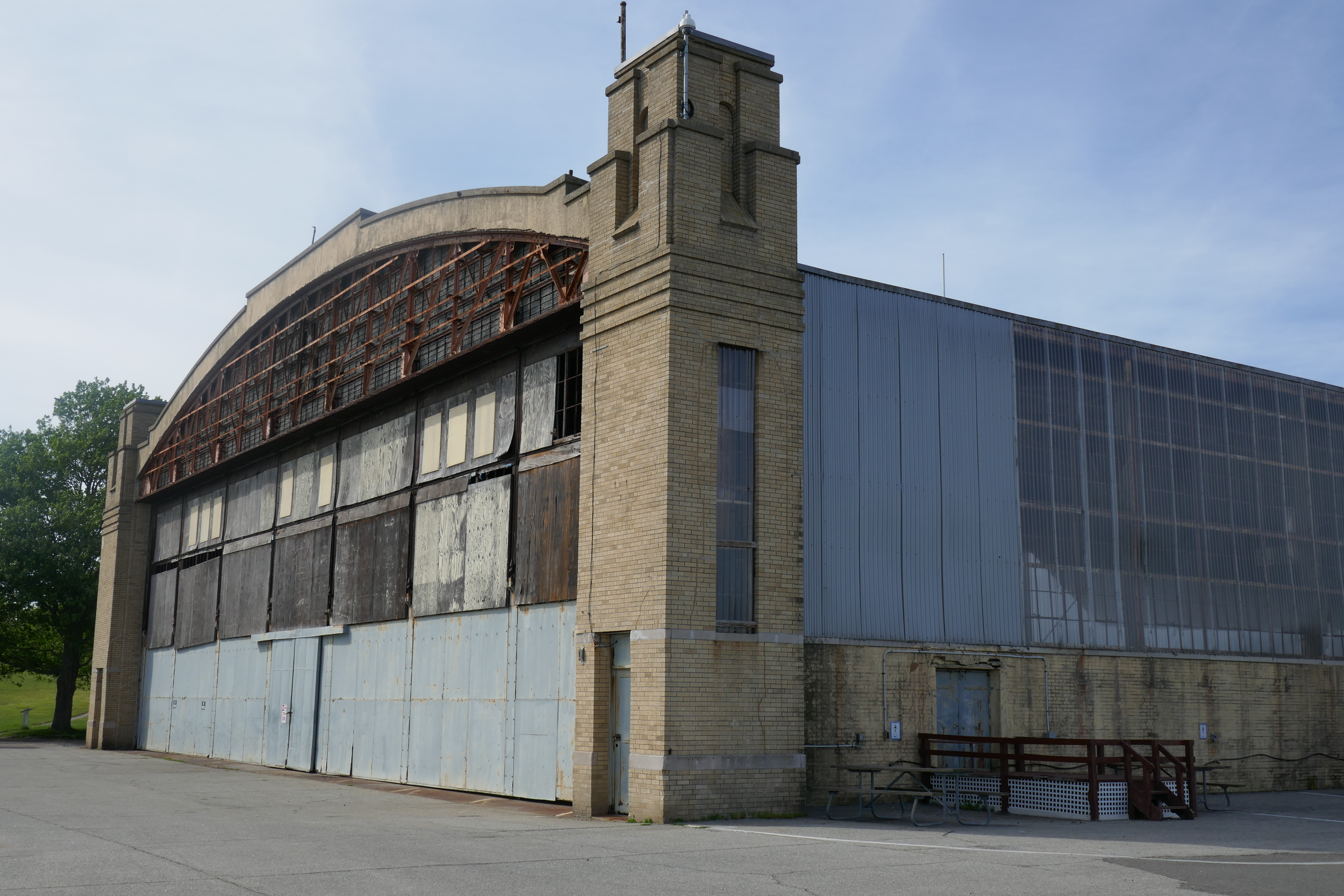 Abandoned seaplane hanger at former Fort Pickering on Winter Island in Salem MA, 2016